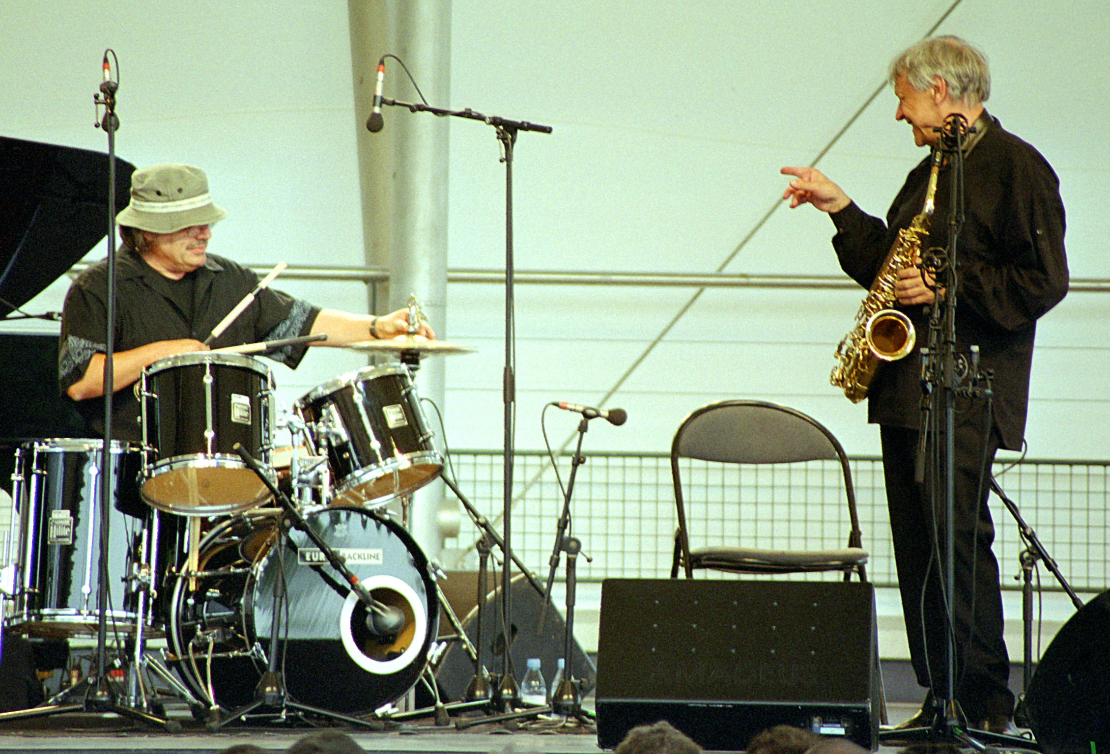 Michel Portal & Bernard Lubat (Paris Jazz Festival)